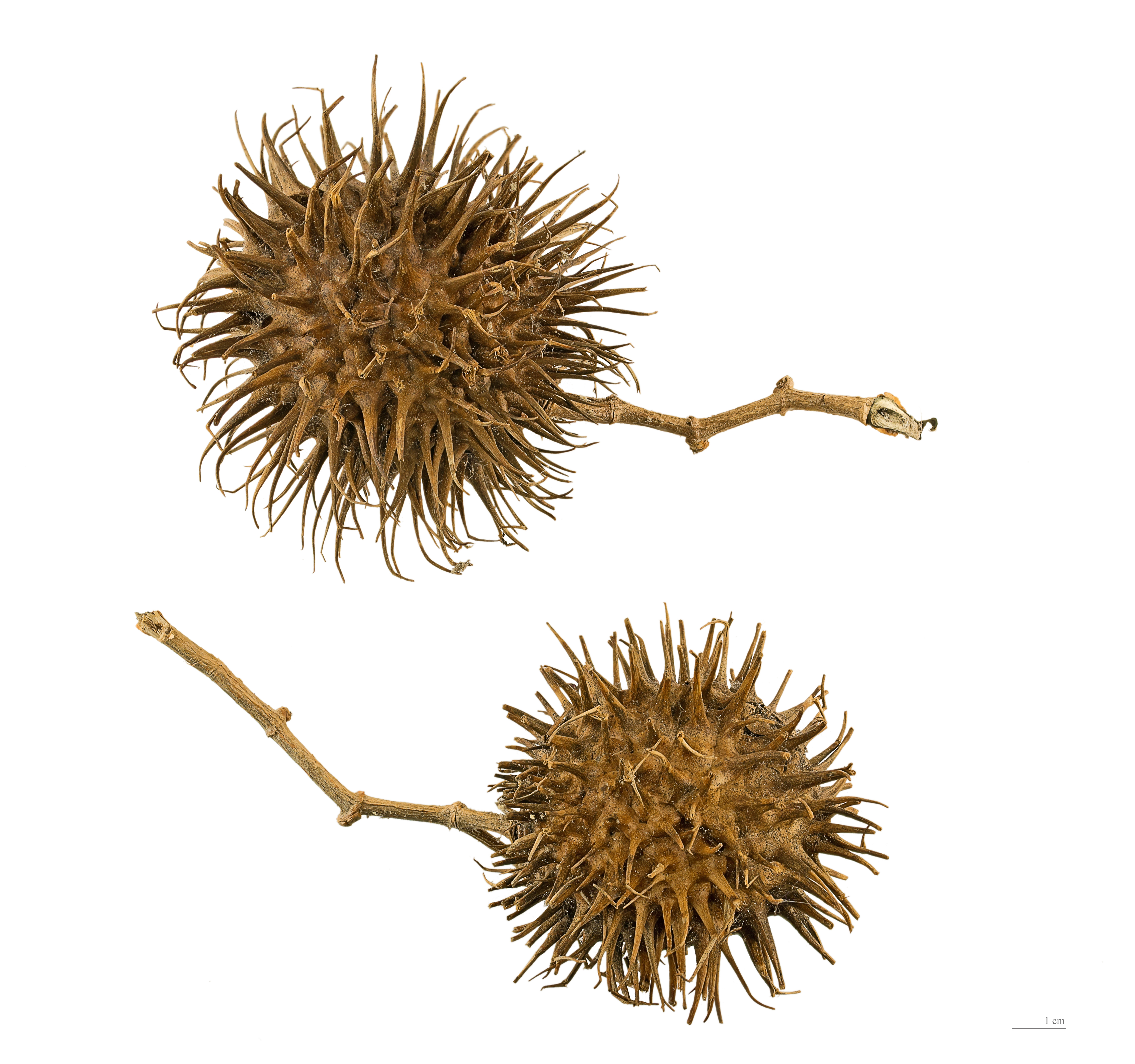 Capsules of Golden Trumpet